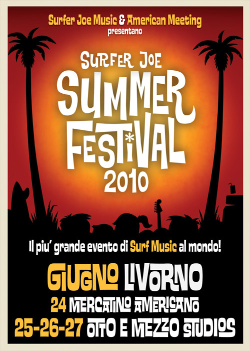 Poster of Surfer Joe Summer Festival 2010 by Fred Lammers